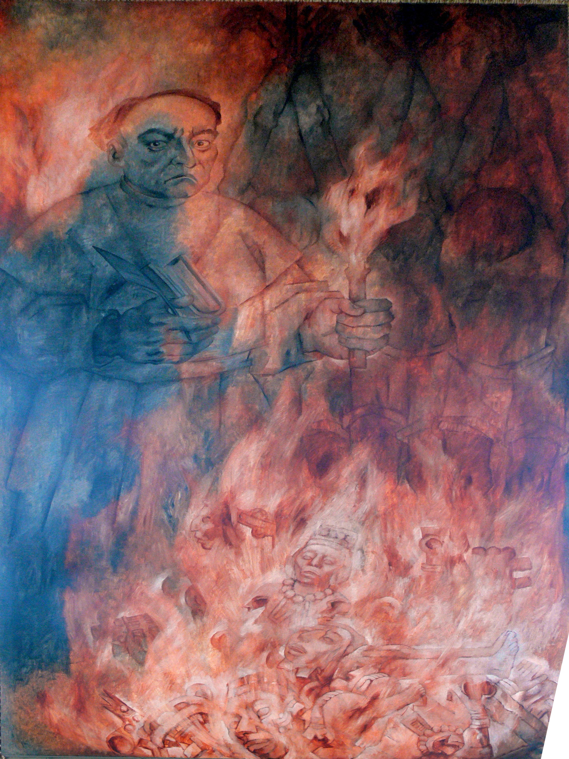 Merida - Palacio de Gobierno - Murals by Fernando Castro Pacheco: The Spanish bishop Diego de Landa is burning figures of Mayan deities.